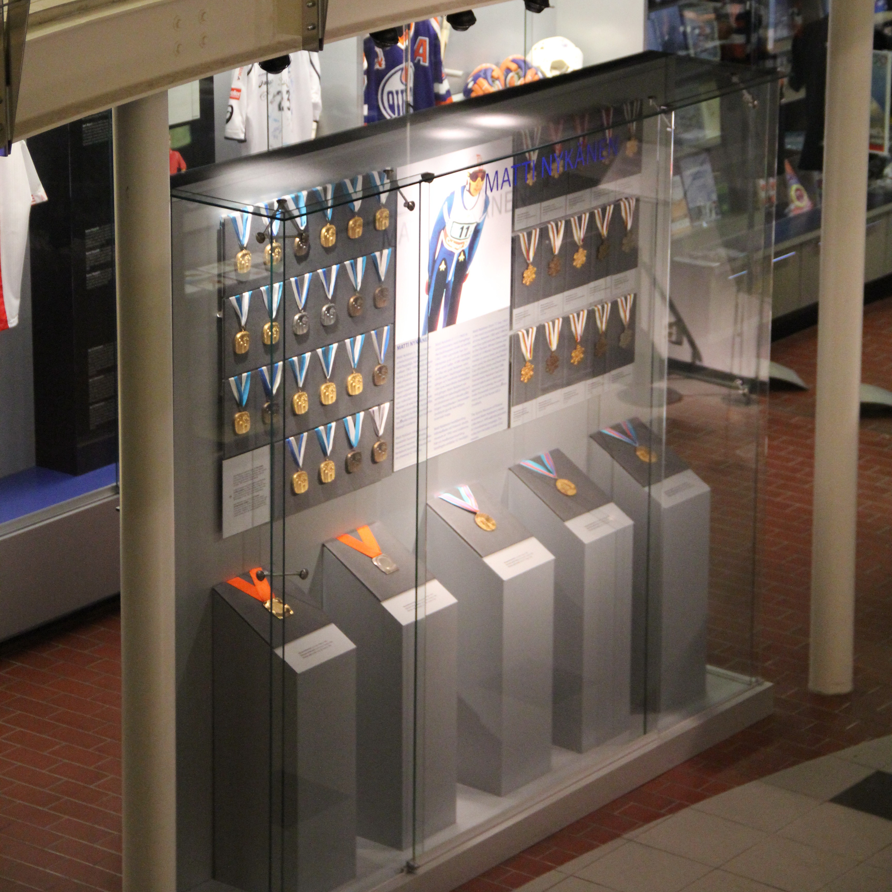 Sports Museum of Finland, Helsinki, Finland. The Matti Nykänen medal collection. Backgroud photo by Giuliano Bevilacqua.